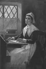 one of the more common paintings of anne bradstreet